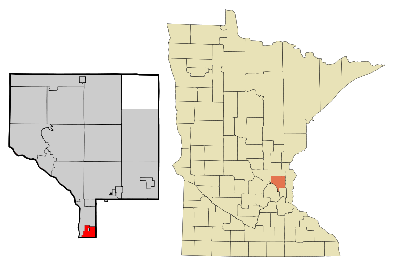 This map shows the incorporated and unincorporated areas in Anoka County, highlighting Columbia Heights in red. This file has been updated to reflect the recent incorporation of new municipalities.